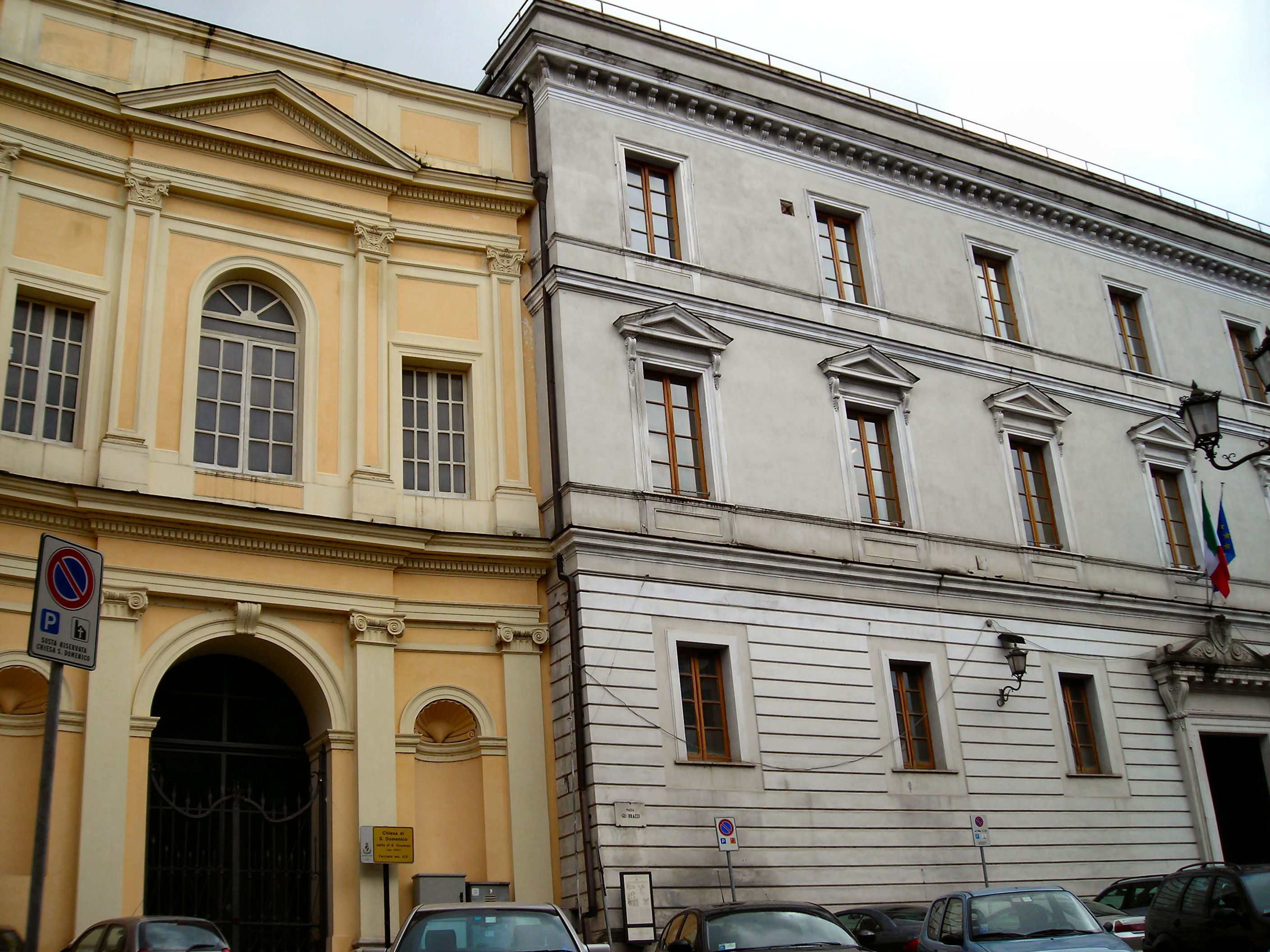 Church and former convent of San Domenico, Benevento. The latter is now headquarter to the University of Sannio.